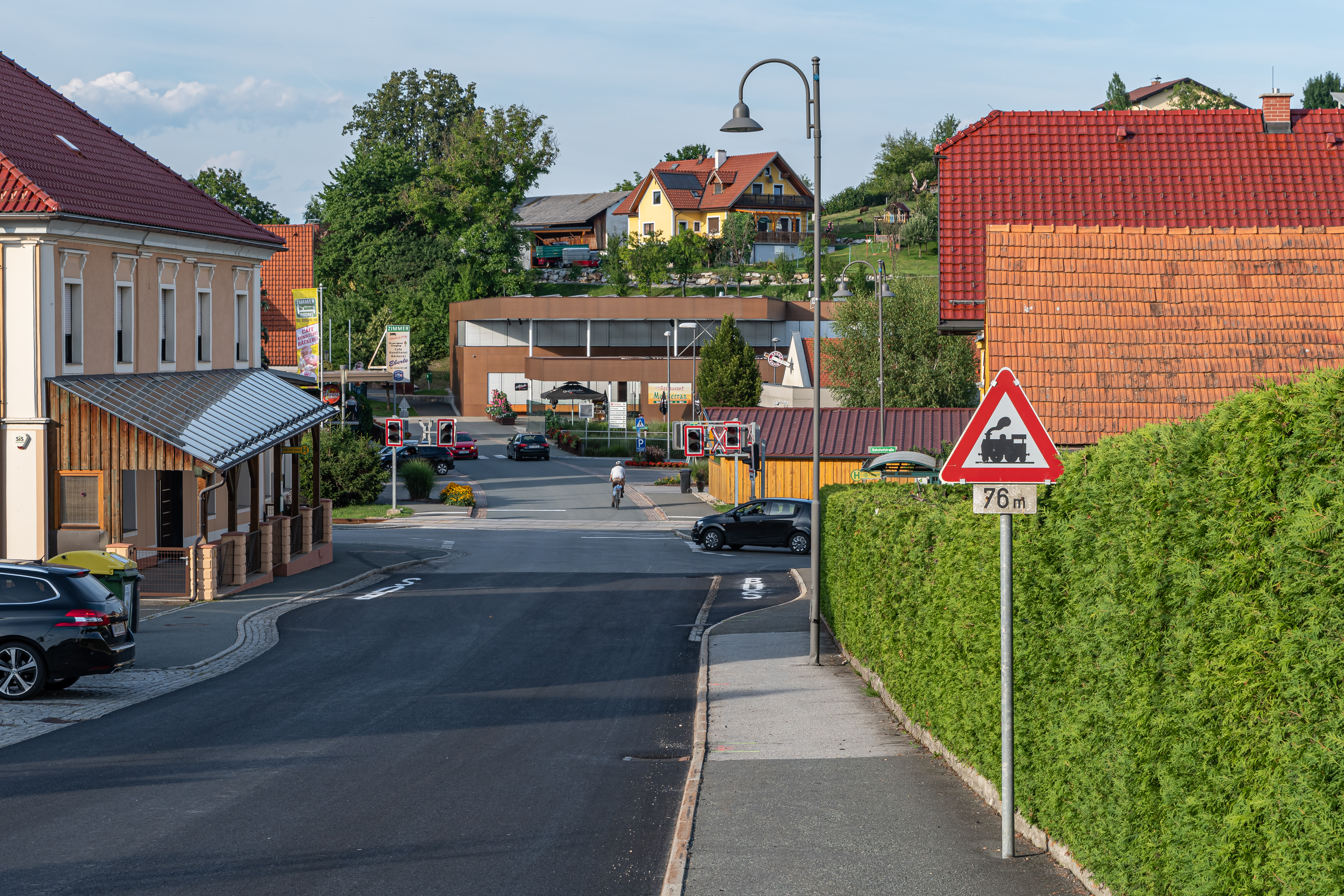 The main street of Lannach (Styria) crosses the Wieserbahn in the center of the village. Lannach